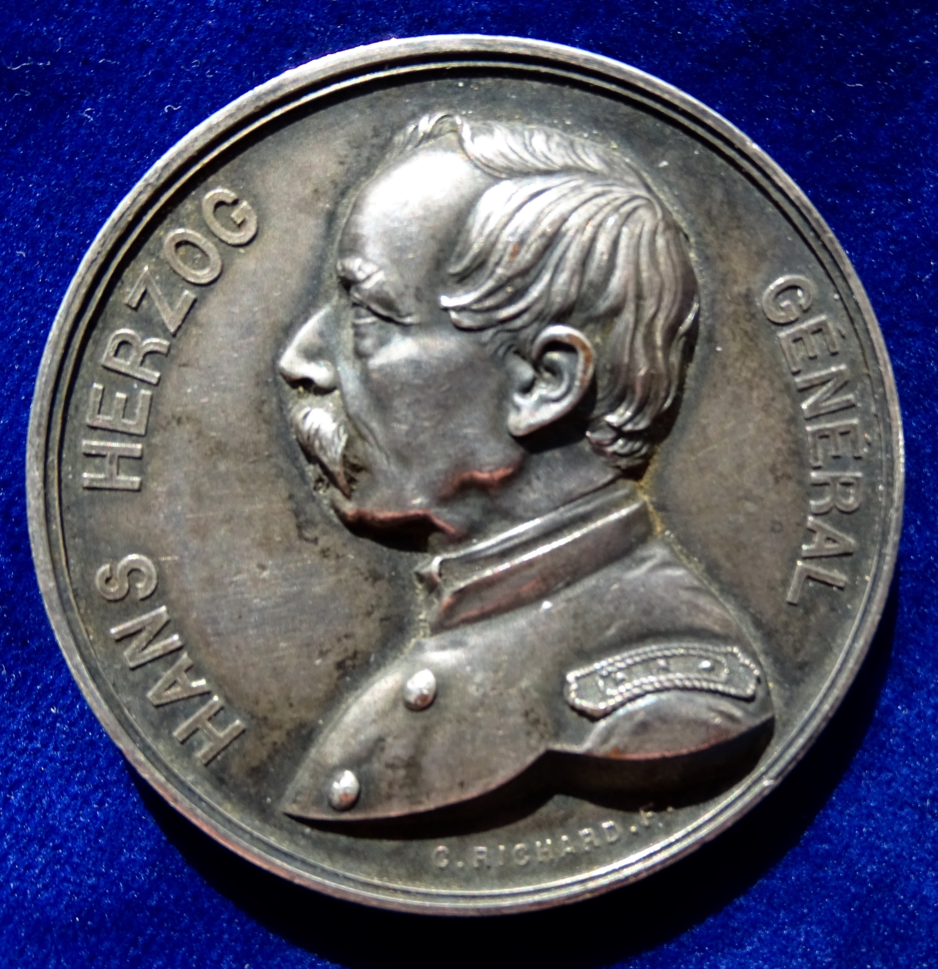 Silvered base metal, d. = 51 mm. Hans Herzog, Aarau, General, 1819 – 1894 Aarau, Switzerland Commemorating the defence of Swiss neutrality during the Franco-Prussian War 1870 - 1871 Uniformed portrait l., around: "GENERAL HANS HERZOG"/ Helvetia standing l. holding sword, and Swiss shield, 3 lines on a rock with the Swiss Cross: "Freiheit (in Gothic script) Liberté Liberta (in Latin script)". Around: "* NEUTRALITE SUISSE * SOUVENIR DU SERVICE FAIT PAR L´ARMÉE FÉDÉRALE DU 16 JUILLET 1870 AU 25 MARS 1871 *". Wurzbach 3688; Forrer V, p. 108. Medallist: C. (Charles Jean) Richard, Engraver, 1832 Geneva - Condition: EXTREMELY FINE, old patina.